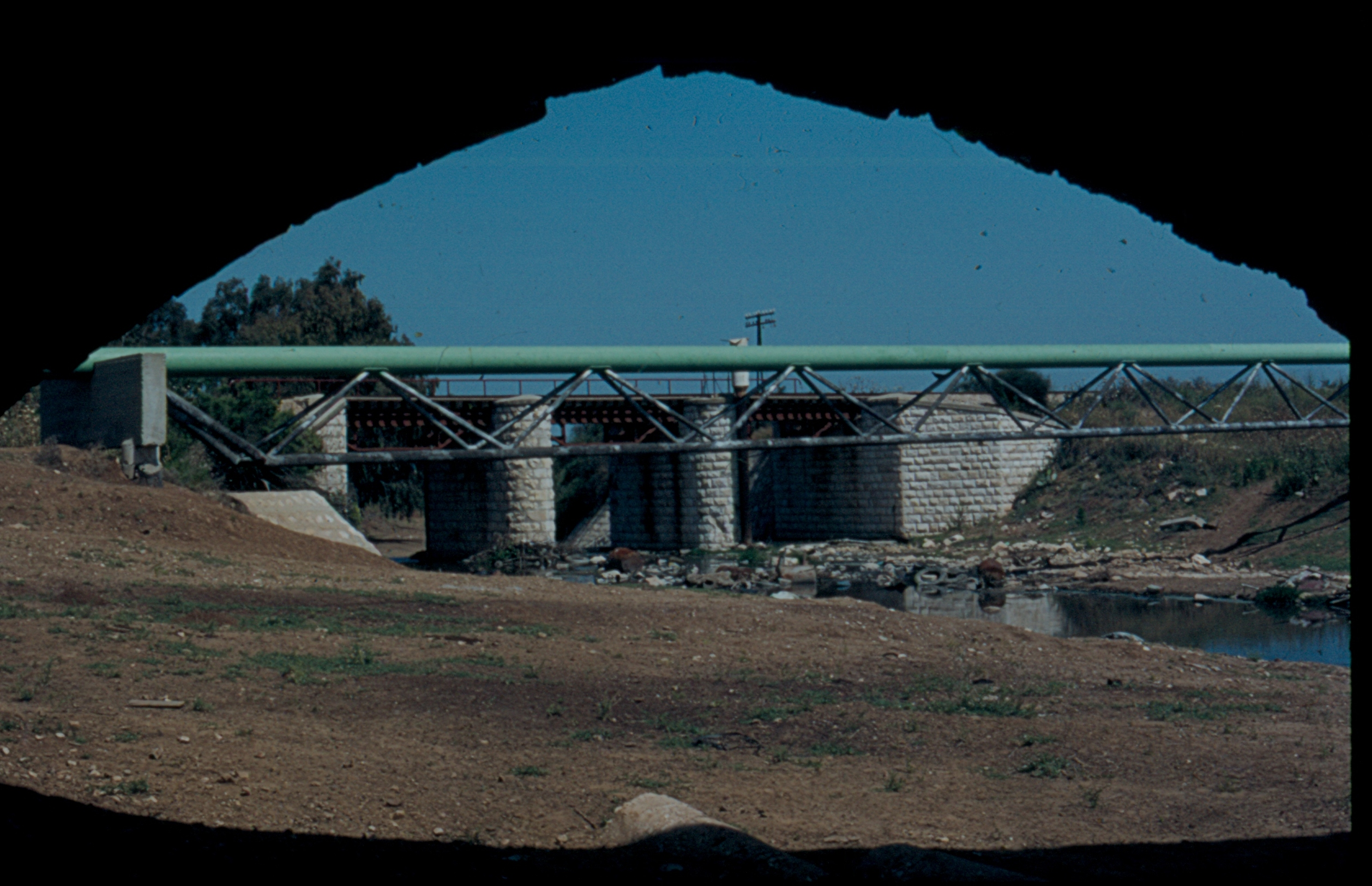 Train_Bridge_of_British_Mandate_at_Lod.